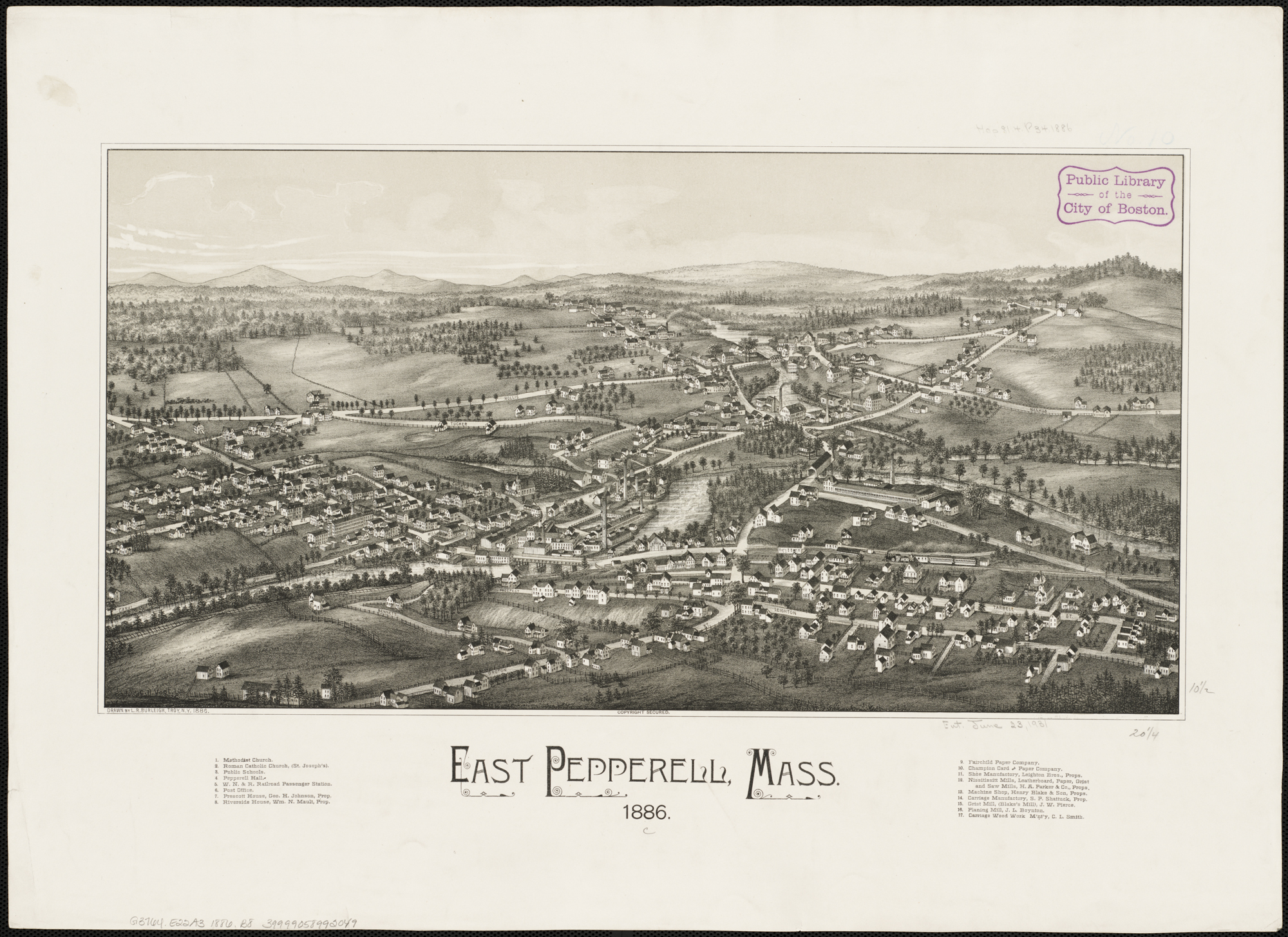 Zoom into this map at . Author: Burleigh, L. R. Publisher: [L.R. Burleigh] Date: 1886. Location: East Pepperell (Mass.) Scale: Not drawn to scale. Call Number: G3764.E22A3 1886.B8